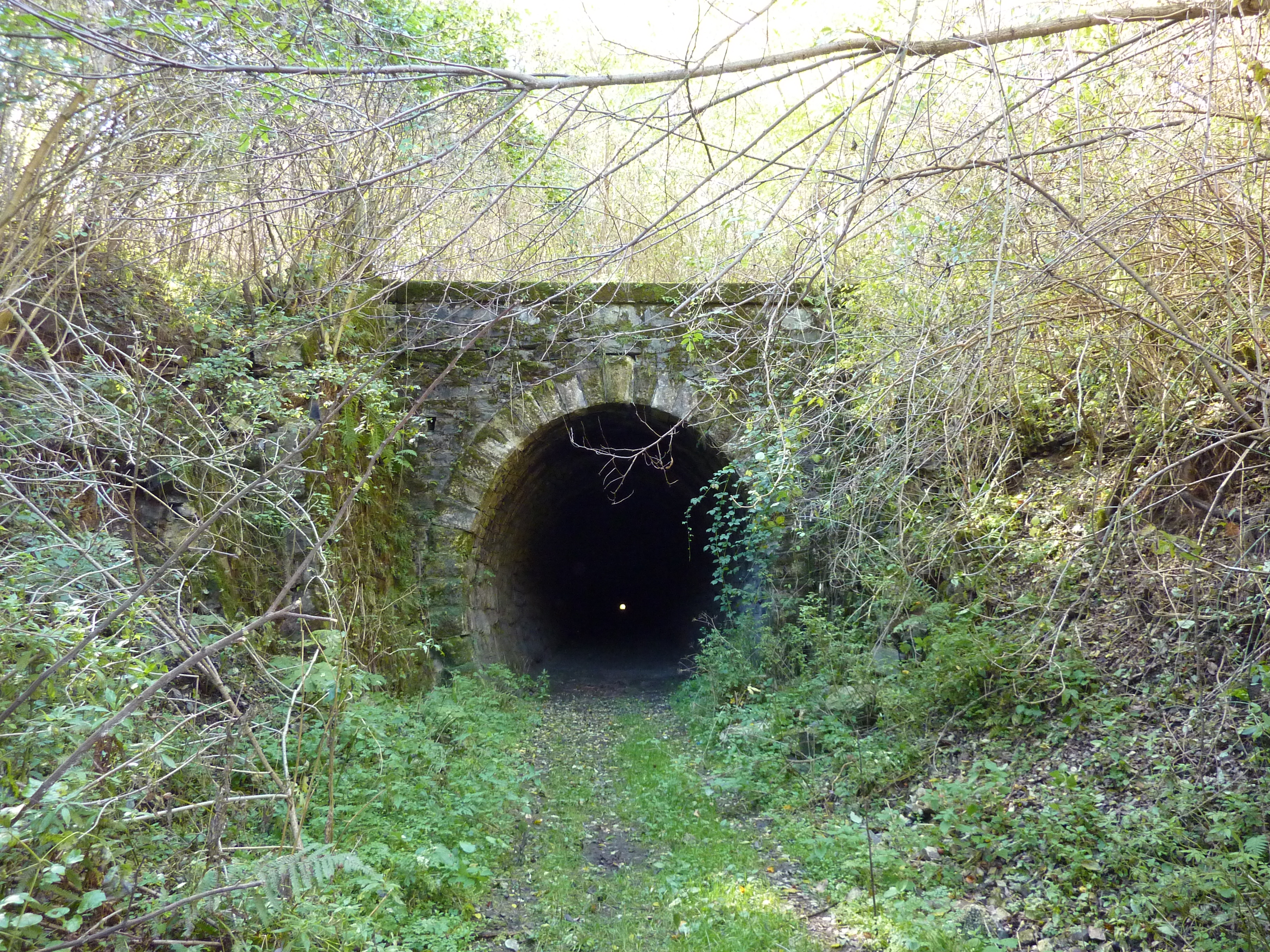 The entrance of the 747m narrow-gauge tunnel